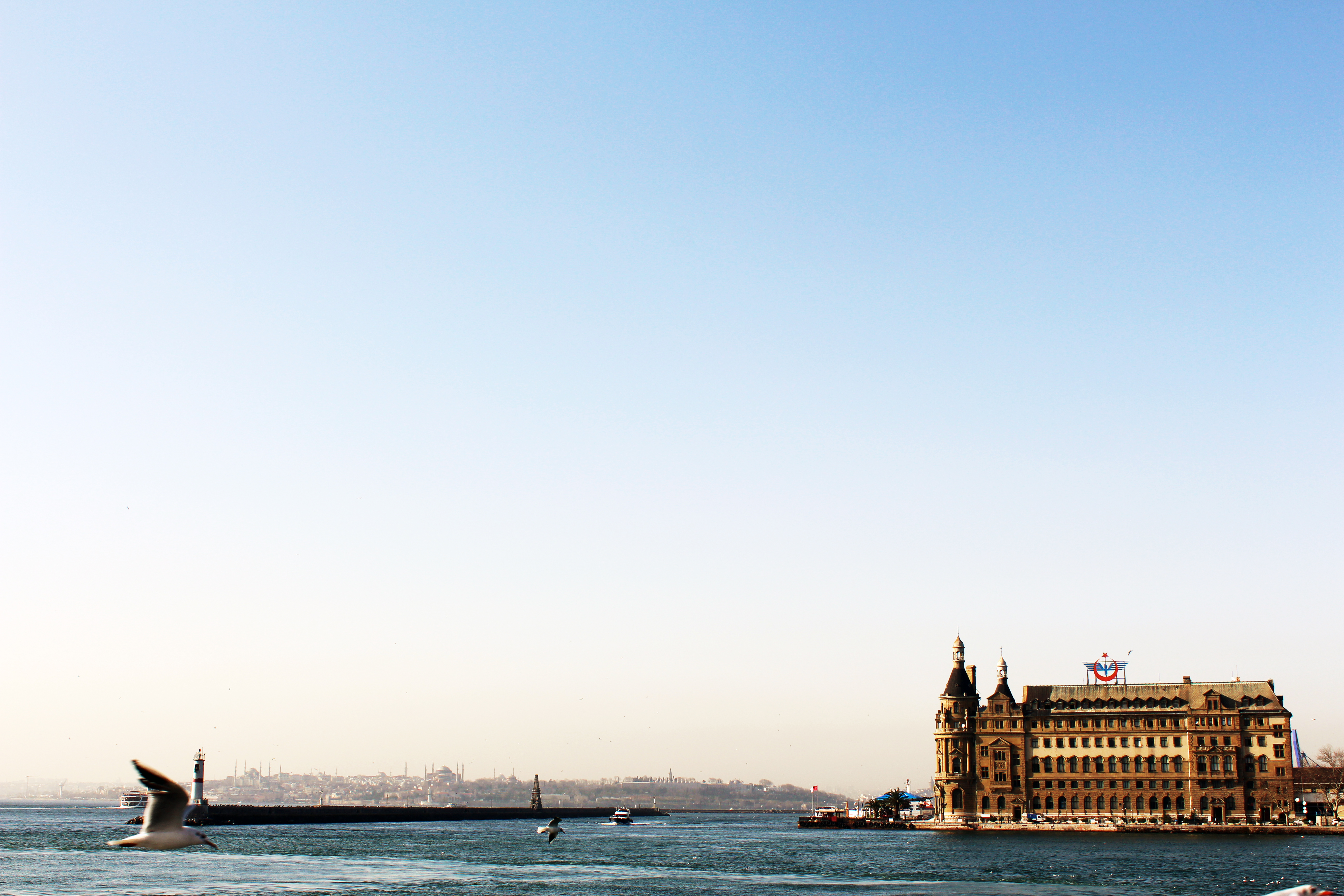 Haydarpaşa Terminal and Seraglio Point at the back, İstanbulTürkçe: Haydarpaşa Garı ve arkada Sarayburnu